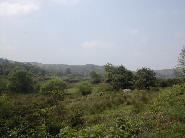 Wild countryside The rough countryside common to most of the Múscraí Ghaeltacht.